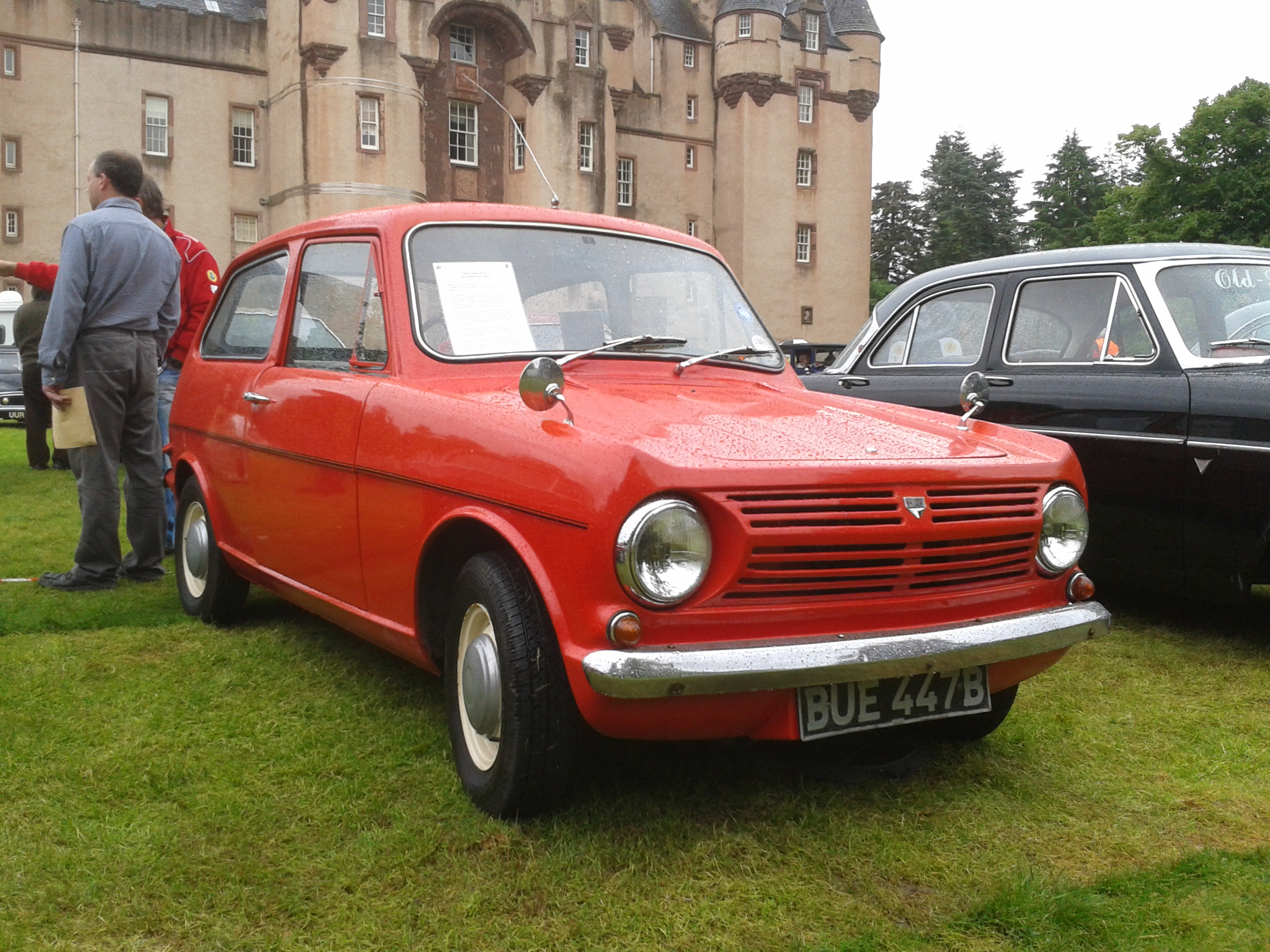 1964 Reliant Rebel (DVLA) first registered 2 September 1964, 700cc Fyvie 2013